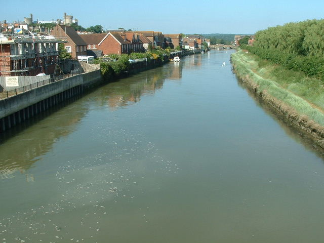 River Arun. Looking NE from the relief road bridge